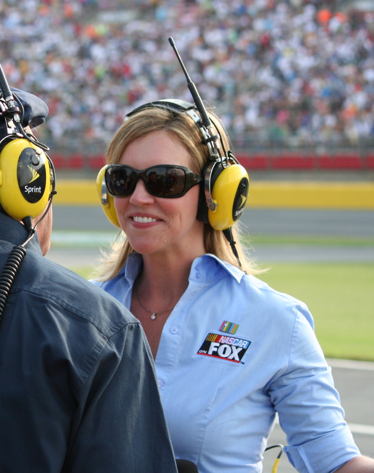 NASCAR on FOX pit reporter Krista Voda (with Dick Berggren in foreground) at the Coca-Cola 600 at Charlotte Motor Speedway, May 29, 2011.